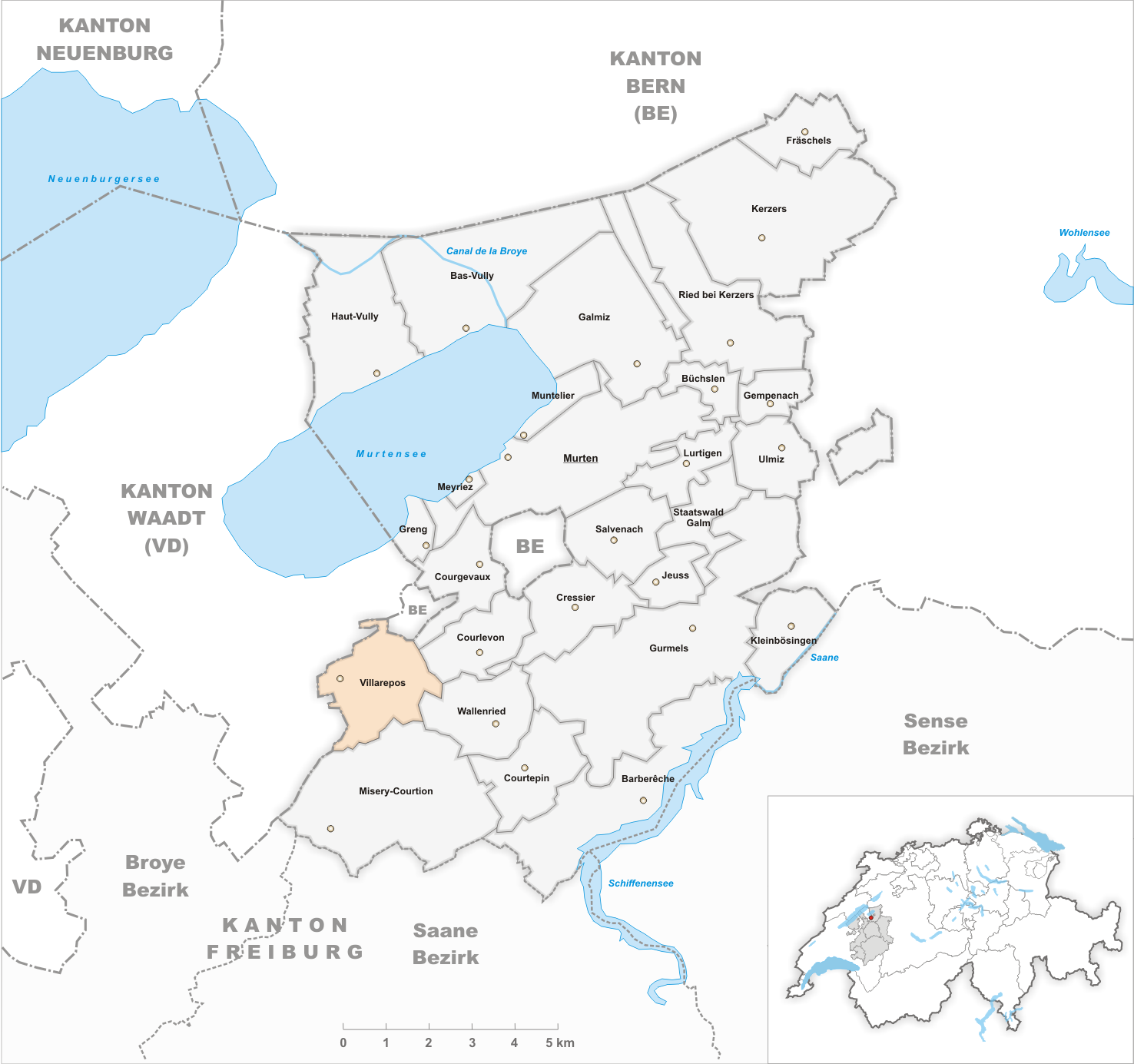 Municipality Villarepos